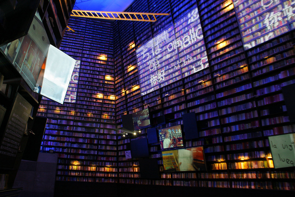 Urbanian Pavilion of Expo 2010 (interior)